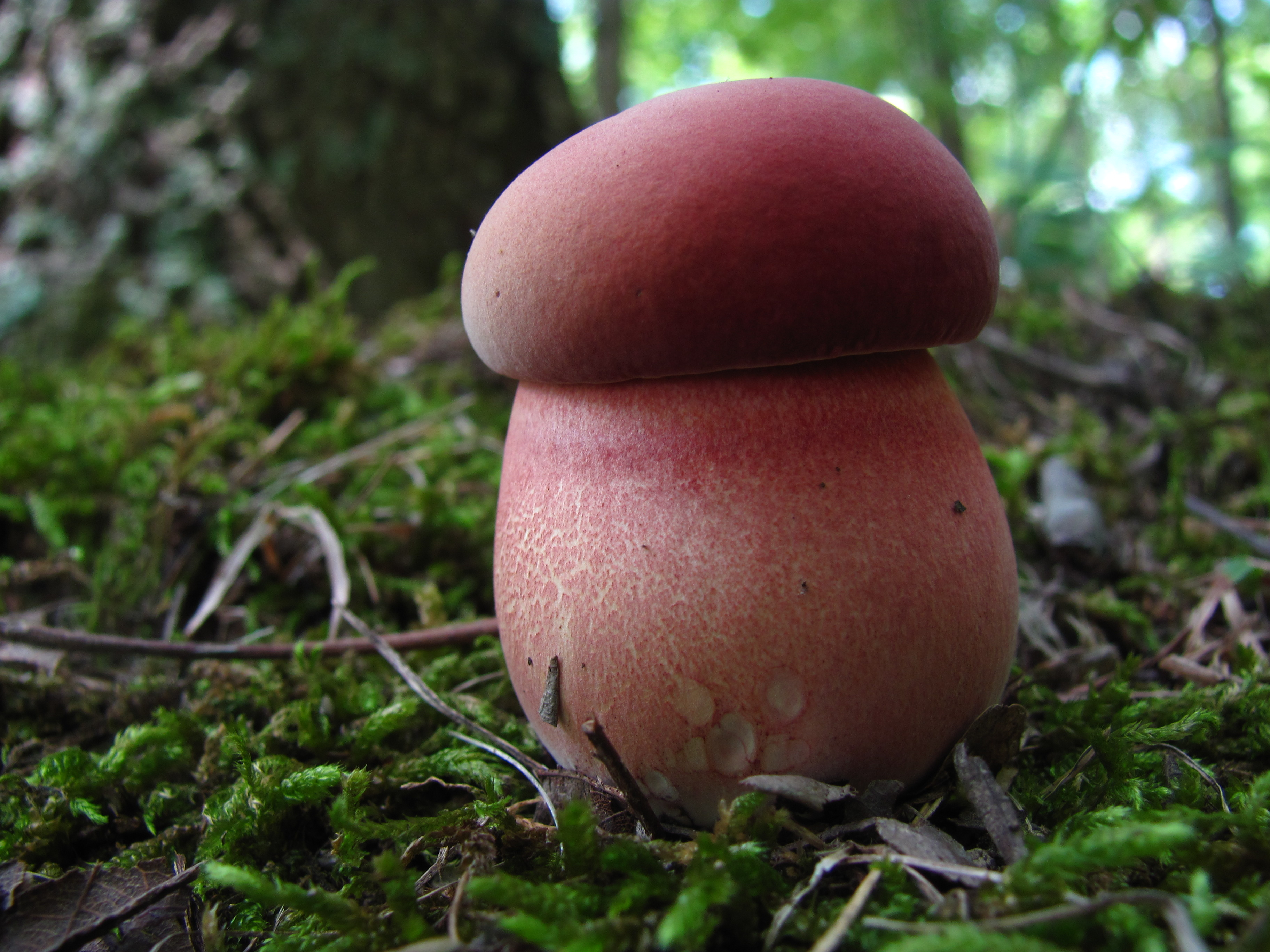 A young fruit body of the fungus Boletus sensibilis Peck. Specimen photographed in Yellowood State Forest, Indiana, USA.